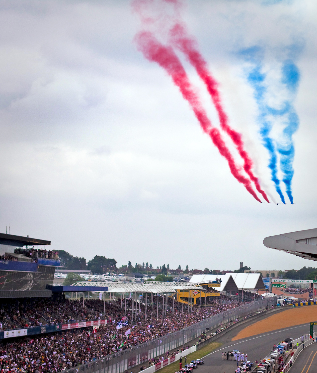 The Patrouille de France flying over Le Mans starting grid.